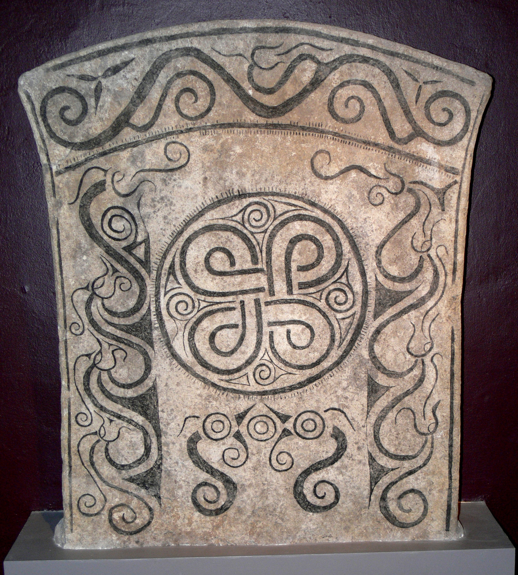 Fornsalen Museum, Visby ( Gotland ). Picture stone with looped square.